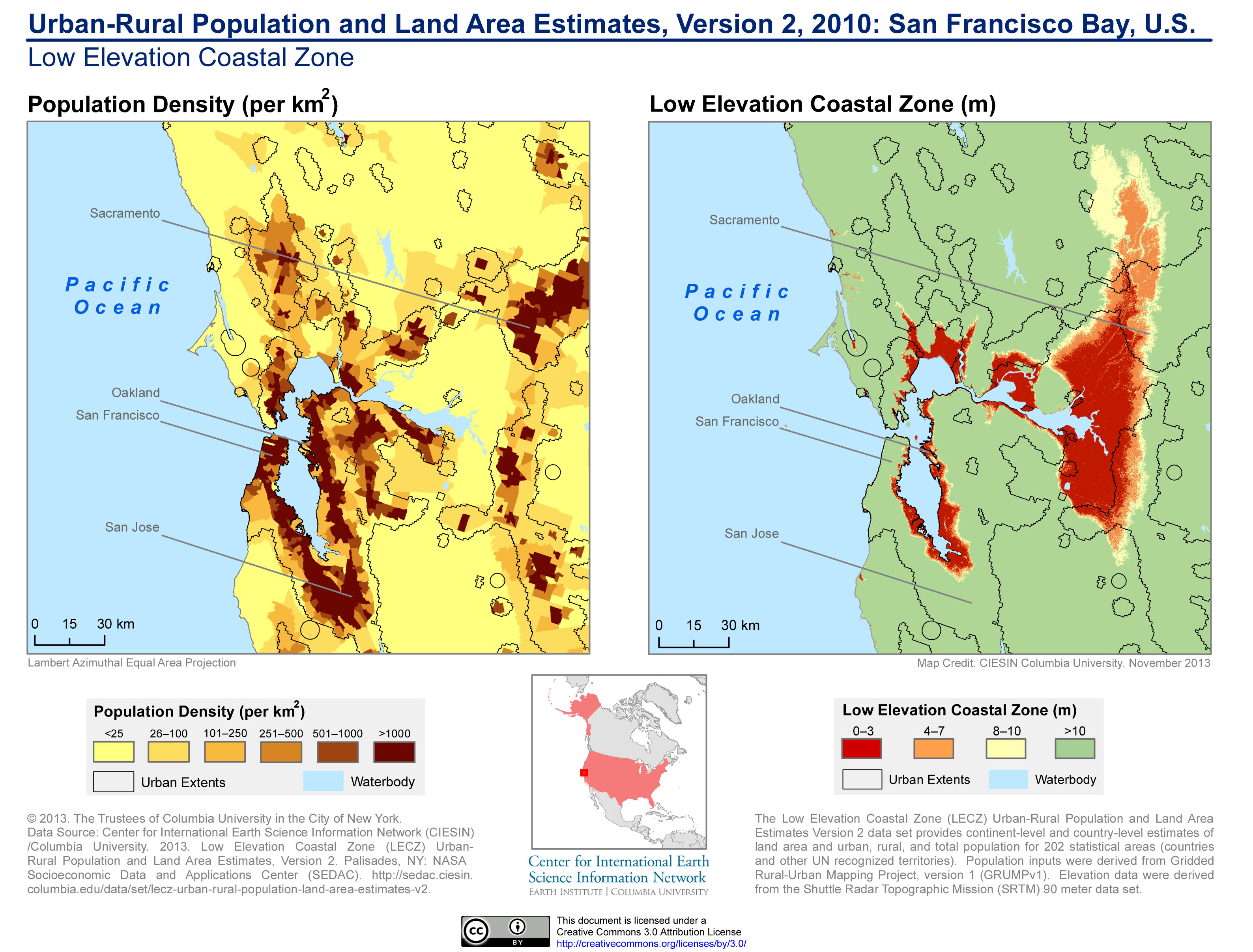 The Low Elevation Coastal Zone (LECZ) Urban-Rural Population and Land Area Estimates Version 2 dataset provides continent-level and country-level estimates of land area and urban, rural, and total population for 202 statistical areas (countries and other UN recognized territories). Population inputs were derived from Gridded Rural-Urban Mapping Project, Version 1 (GRUMPv1). Elevation data were derived from the Shuttle Radar Topographic Mission (SRTM) 90 meter dataset.